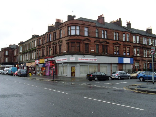 Mohammad Sarwar MP Constituency Office Located on Paisley Road West is this constituency office of Britain's first elected Muslim MP. Sarwar holds great respect for his work in the area, even with voters disillusioned with New Labour. As of June 2007 he has announced his desire to step down at the next General Election, with his son being touted as a suitor to his seat in Parliament.